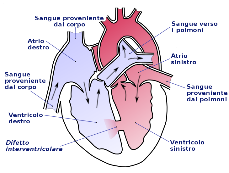 Ventricular septal defect (VSD) is a defect in the ventricular septum, the wall dividing the left and right ventricles of the heart.